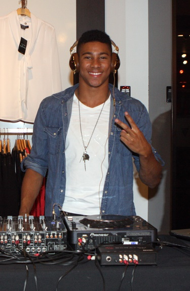 Guess hosts ladies night with CLEO Bachelors; Sydney, Australia Four of the most prolific Cleo Bachelor 2012 finalists were in attendance at today's beauty industry event at Westfield Sydney. Surfer and Masterchef hunk Hayden Quinn; X Factor's Johnny Ruffo; entrepreneur Andrew McIver and DJ Keiynan Lonsdale, all provided tunes for the evening. Hosted by Cleo editor Gemma Crisp, the lucky 100 guests all enjoyed champagne and canapes before being invited to a 'style off' with their friends; dressing each other in items from the Guess store. The final looks were judged by the Cleo Bachelors and the winner received coveted tickets to the Cleo Bachelor of the Year 2012 grand finale event. Thank you and well done to everyone who helped make today possible.